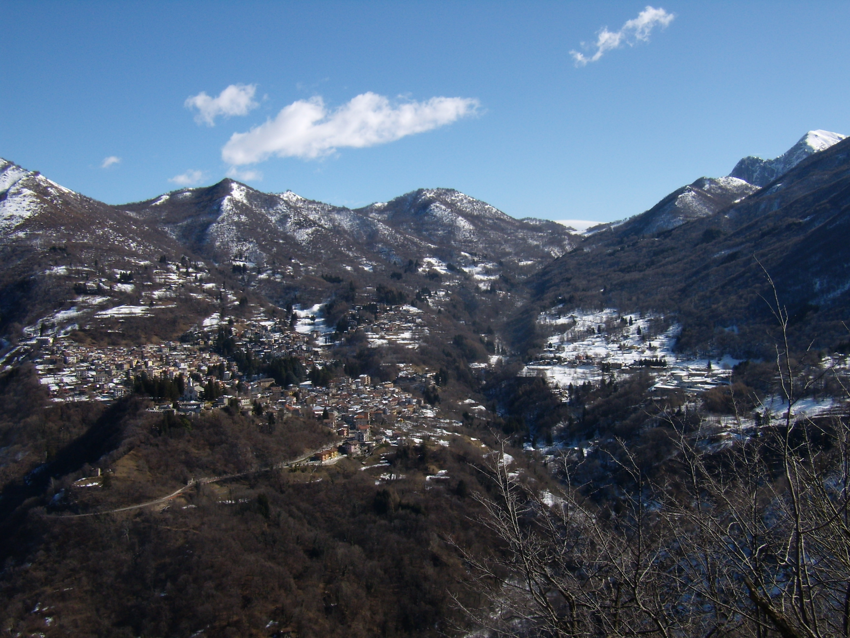 View of and from Esino Lario.